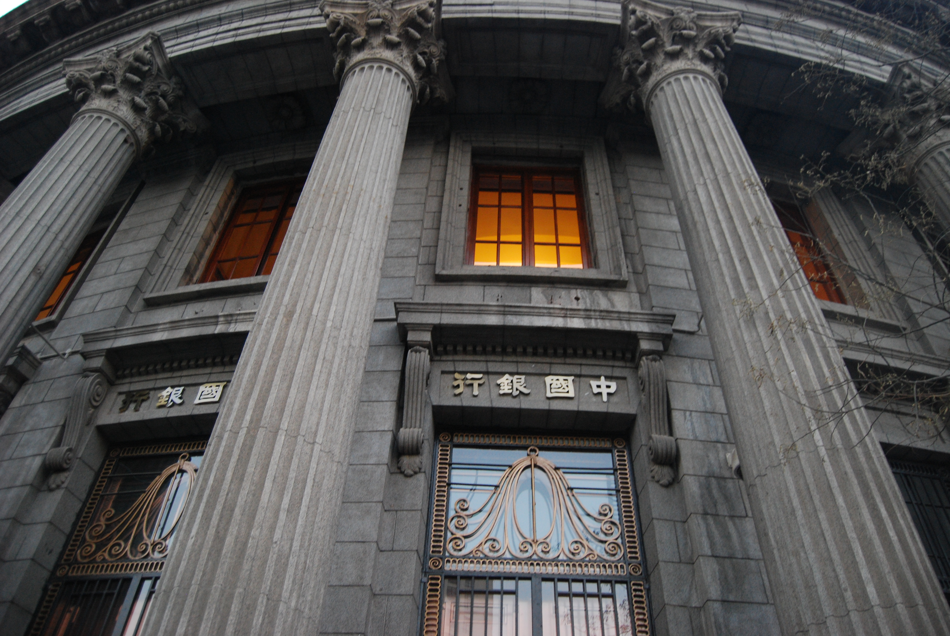 Former Frennch Chinese Bank in Jiefangbei Lu No. 74–78, Heping District